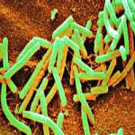 This image is attributed to NASA, a government agency.